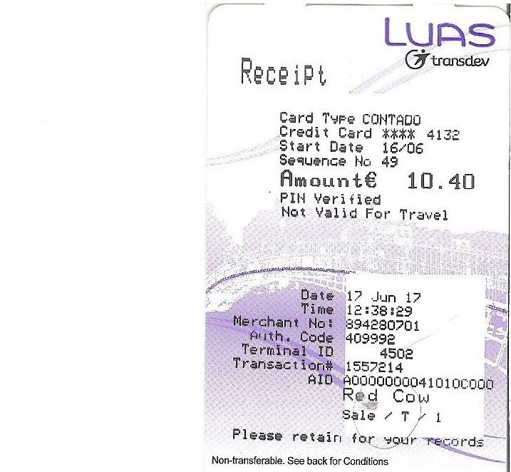 Luas ticket